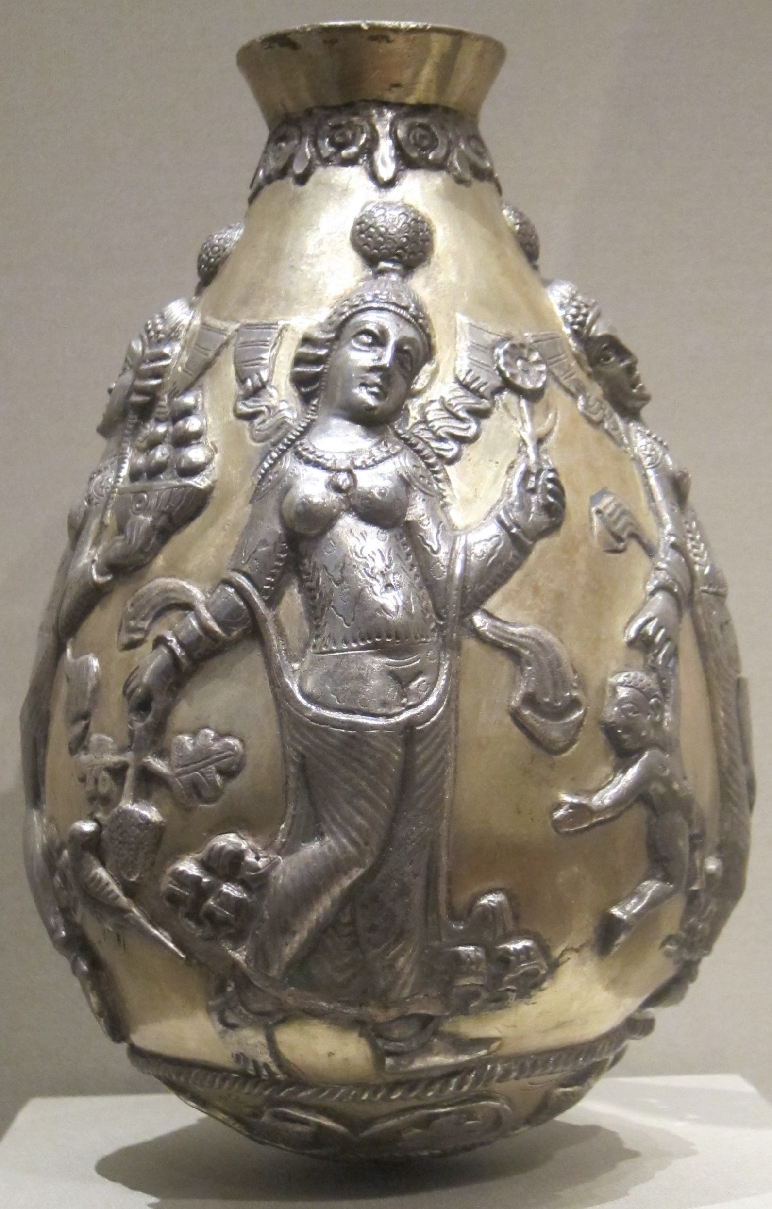 Anahita vessel, 300-500 CE, silver, cast, raised, repoussé, chased and gilt, Sasanian, Iran, Cleveland Museum of Art